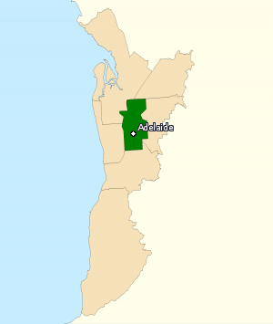 This image incorporates data that is: © Commonwealth of Australia (Australian Electoral Commission) 2009 Division of Adelaide 2010